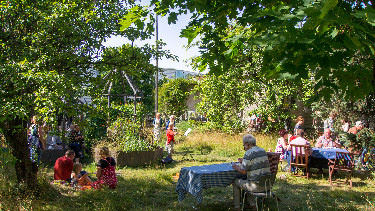 Tunne+Tila, Rauma